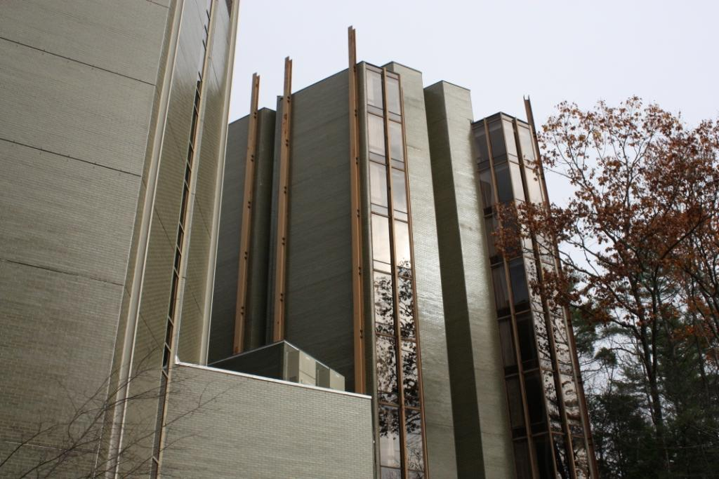 The New England Center (Hotel & Conference Center), Durham, NH